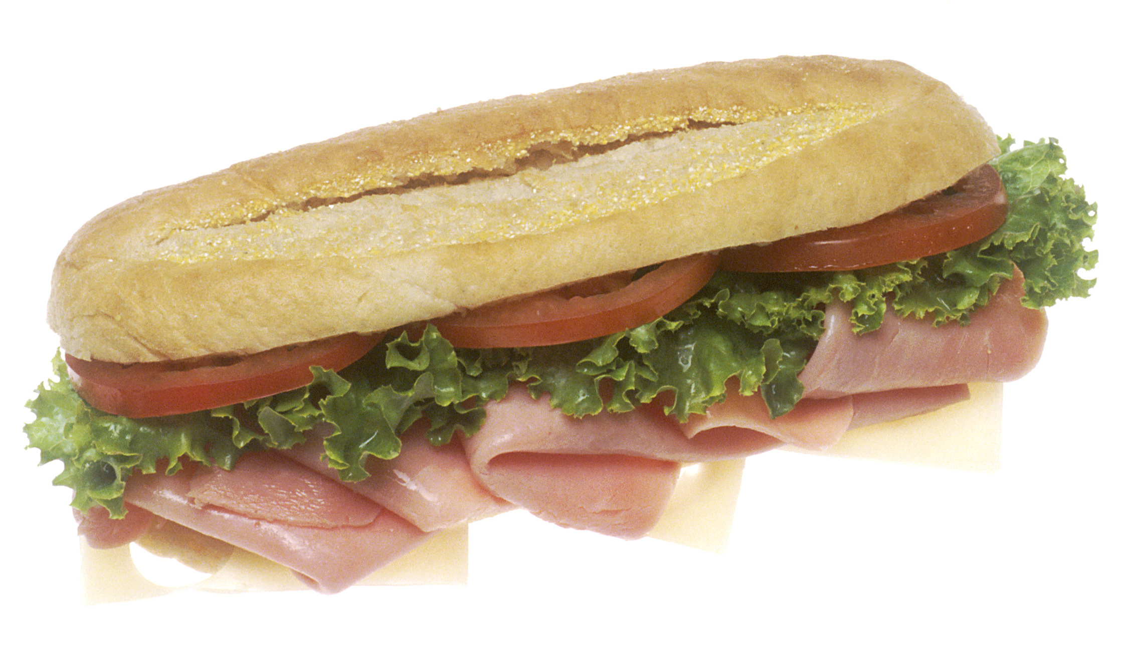 Title Sandwich Description A single sandwich made on a submarine or hoagie type roll, with ham, cheese, lettuce and tomatoes. Topics/Categories Food and Drink Type Color, Photo Source National Cancer Institute